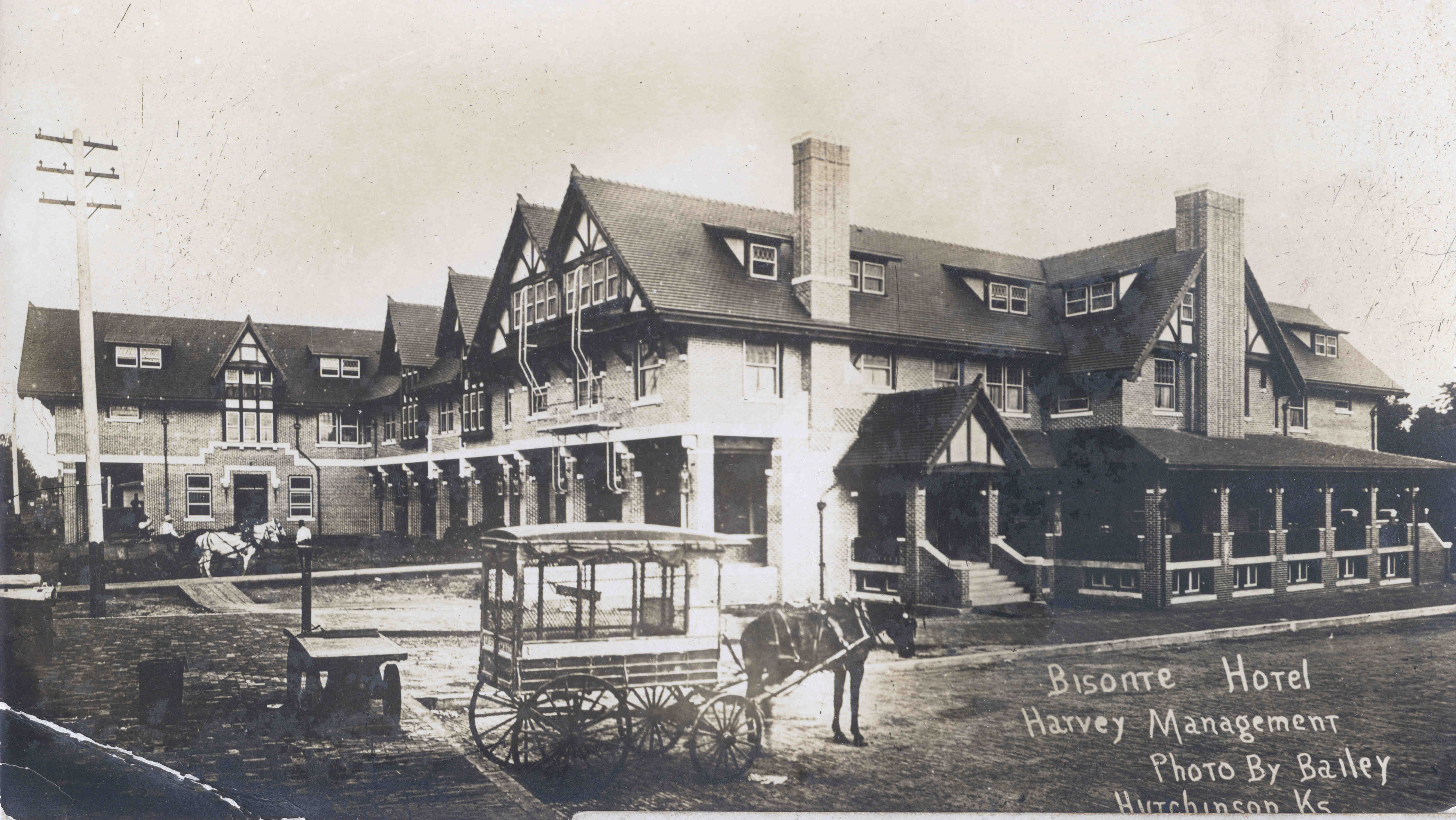 A mail screen wagon is posed in front of the Bisonte Hotel in Hutchinson, Kansas. The hotel was built in 1906 and closed in 1946. It was the Harvey House and Santa Fe station in Hutchinson.